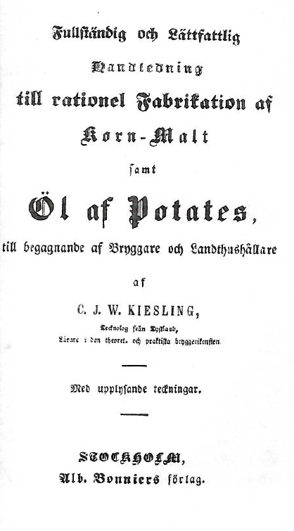 Manual for producing beer of Potatoes